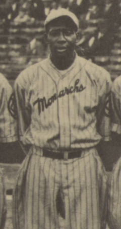 Bullet Rogan at the 1924 Negro League World Series in Kansas City. LOC states here that there are no restrictions on use of this image, therefore it is PD. This file has been extracted from another file: 1924 Negro League World Series.jpg